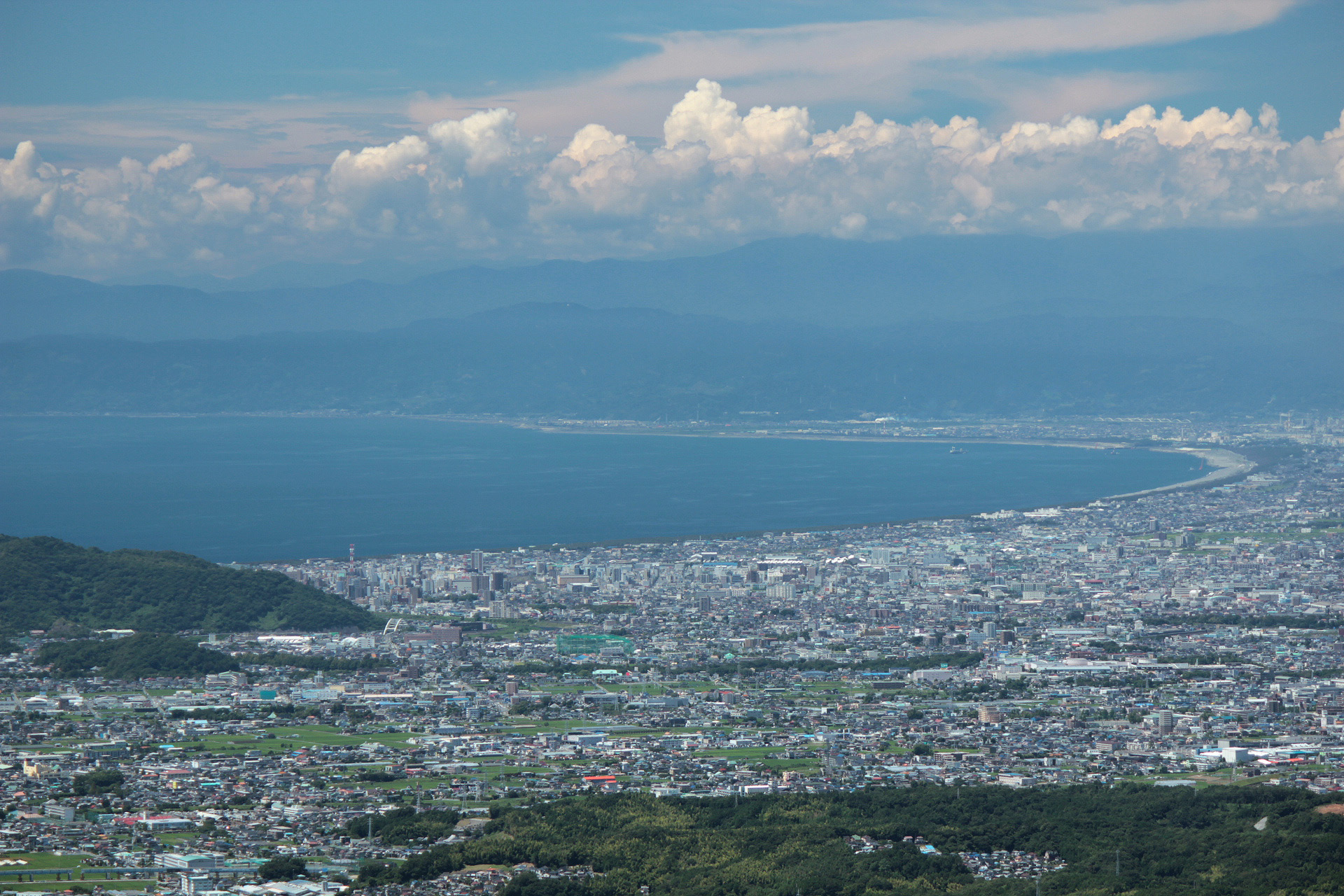 Fuji Coasat and the deep part of Suruga Bay as seen from the east.